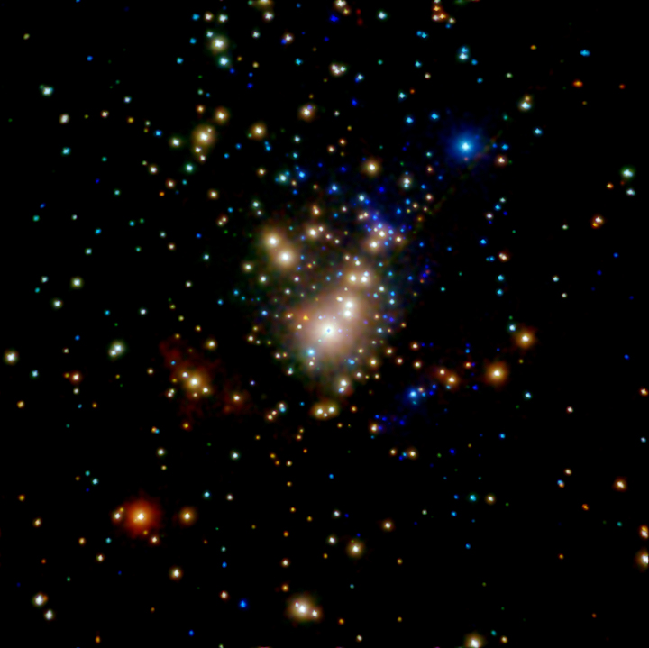 This Chandra image shows the Orion Nebula Cluster, a rich cluster of young stars observed almost continuously for 13 days. The long observation enabled scientists to study the X-ray behavior of young Sun-like stars with ages between 1 and 10 million years. They discovered that these young stars produce violent X-ray outbursts, or flares, that are much more frequent and energetic than anything seen today from our 4.6 billion-year-old Sun.